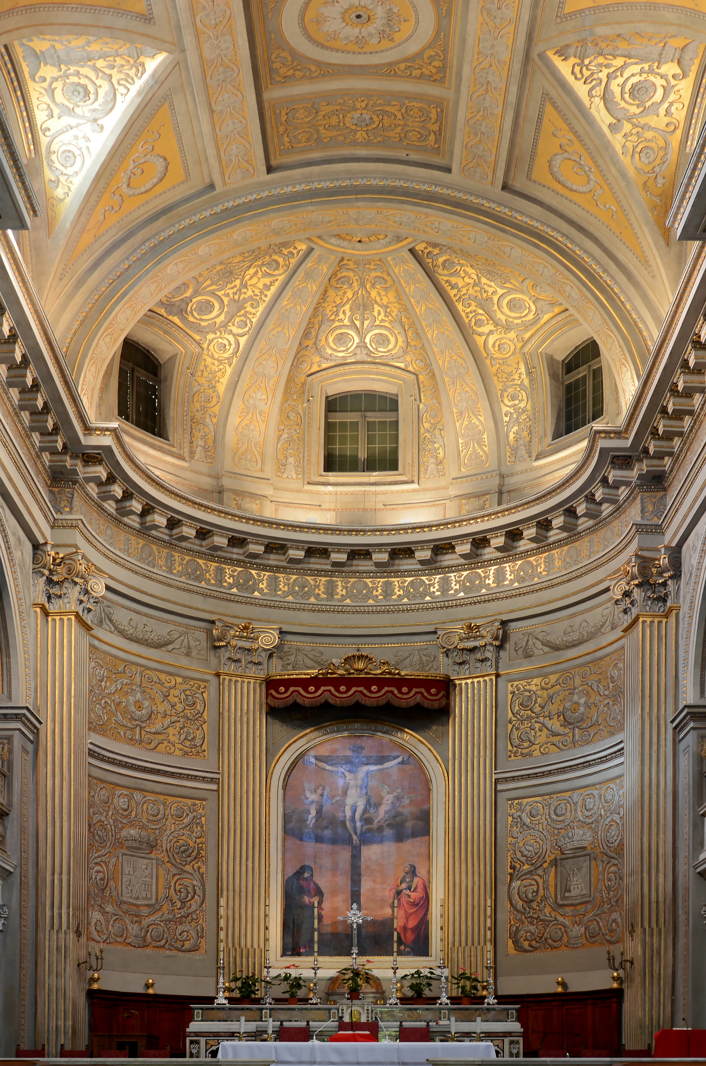 Church of Holy Mary in Monserrat of the Spaniards